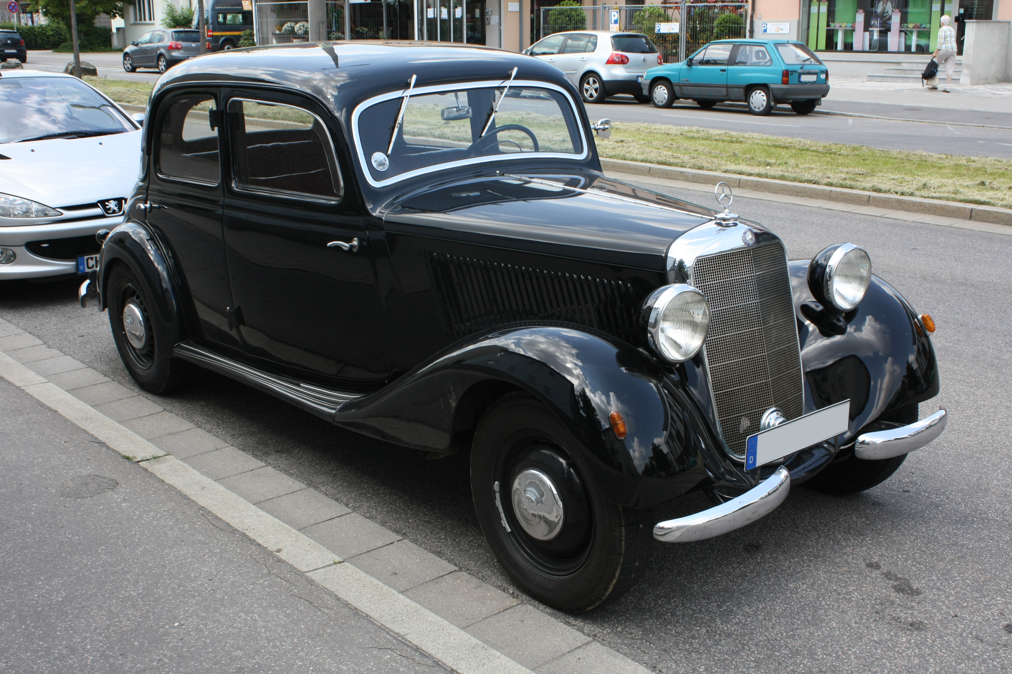 Mercedes-Benz 170V